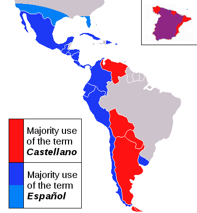 Most commonly used names given to the Spanish Language (English)